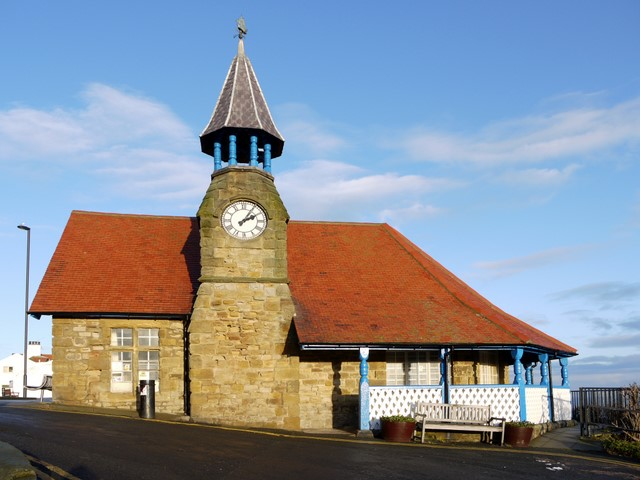 Life Brigade Watch House, Cullercoats. The Watch House 868859 was designed by Frank West Rich, who designed Turnbull's Warehouse and Bolbec Hall in Newcastle. A pre-existing clock tower was incorporated in the design. The Cullercoats Volunteer Life Brigade, the second to be formed after Tynemouth, was formed after 1864 and the Watch House constructed between 1877 and 1879. The duty of the Life Brigade was to assist the Coast Guard in their endeavours to save life from shipwreck. The building is now the home of a community centre, the Watch House Club. It features in several paintings when the village was the base for a thriving artists' colony between 1870 and 1920. These include 'Watching the Tempest' by leading American artist Winslow Homer (1881)